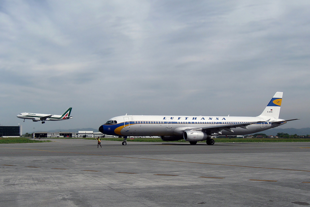 A321 retrojet by Lufthansa in Turin (TRN/LIMF) celebrating 40 years of operations in TRN.